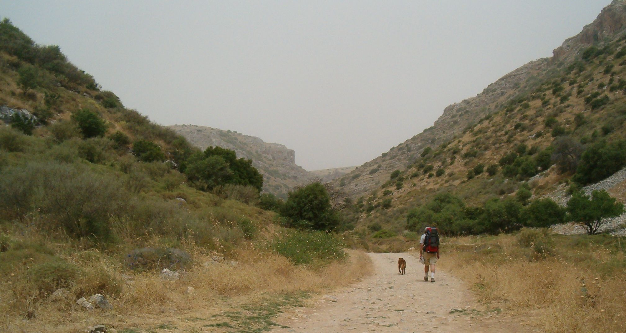 Hiking the Israel National Trail (Wadi Dishon in Northern Israel) during a sharav.